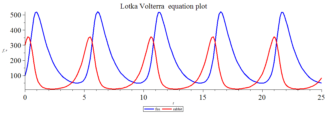 Lotka Volterra equation Maple plot